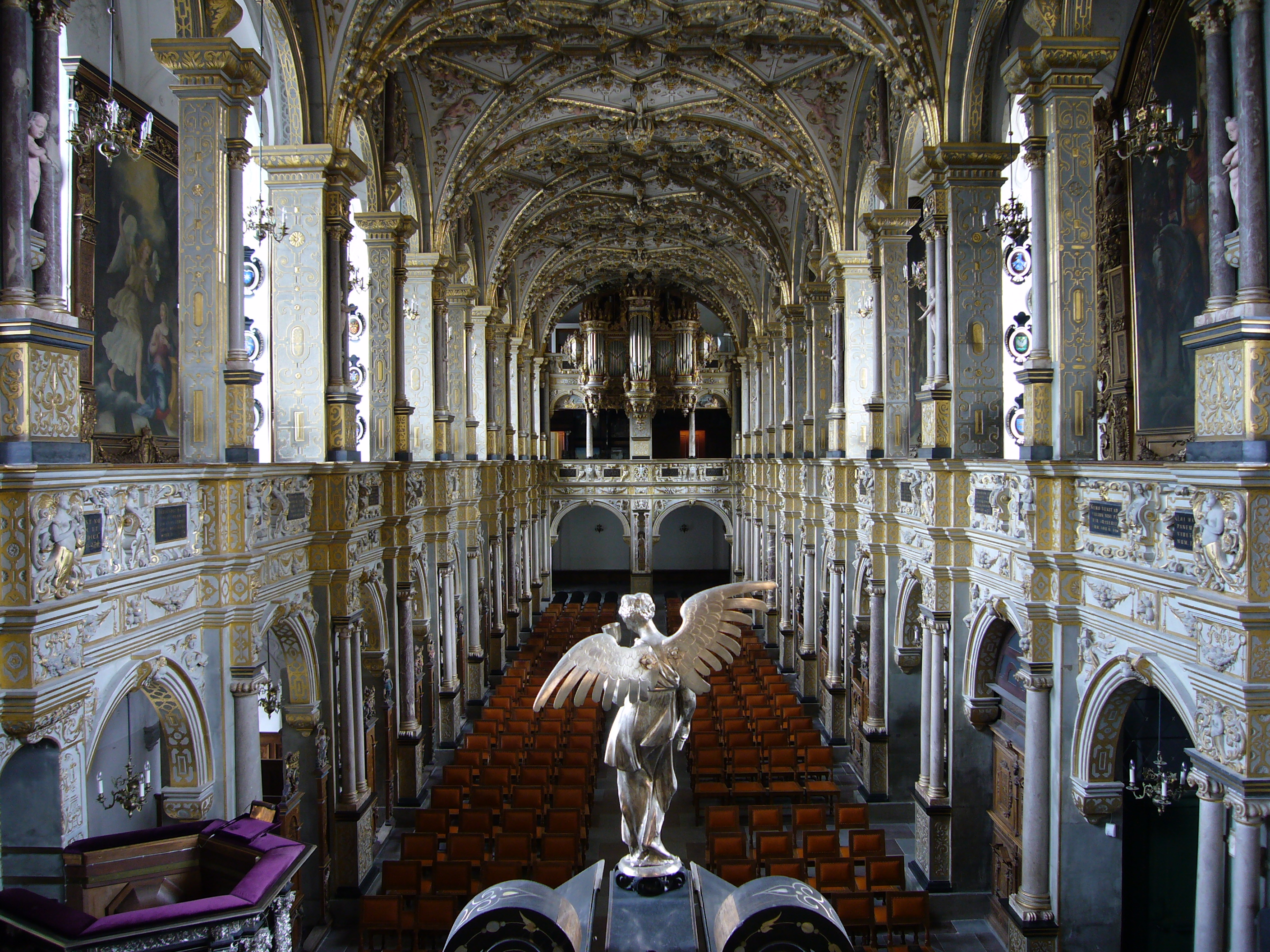 The impressively baroque chapel at Frederiksborg Slot.